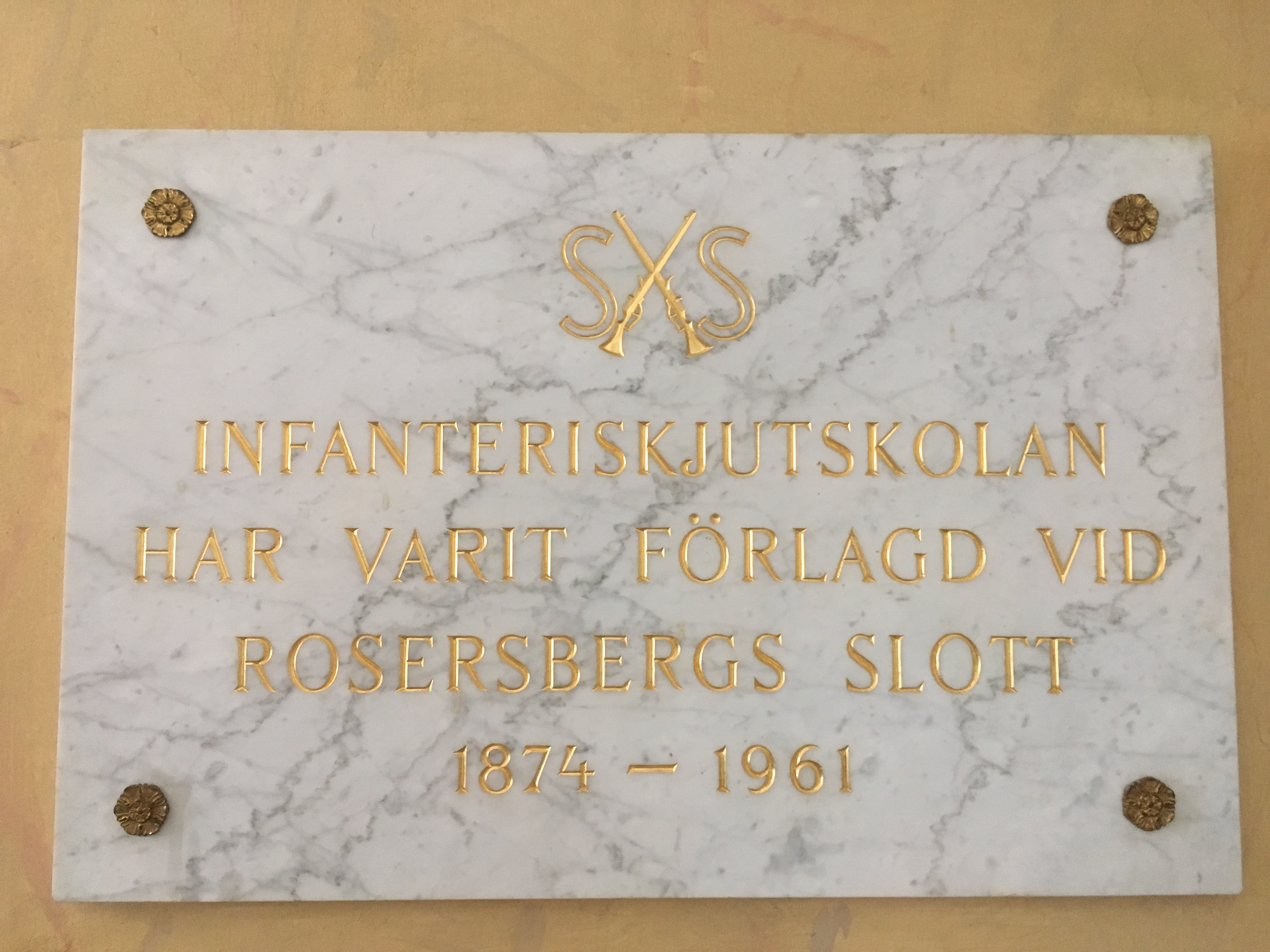 Signs of the Swedish Infantry Gunnery School's presence at Rosersberg Palace.